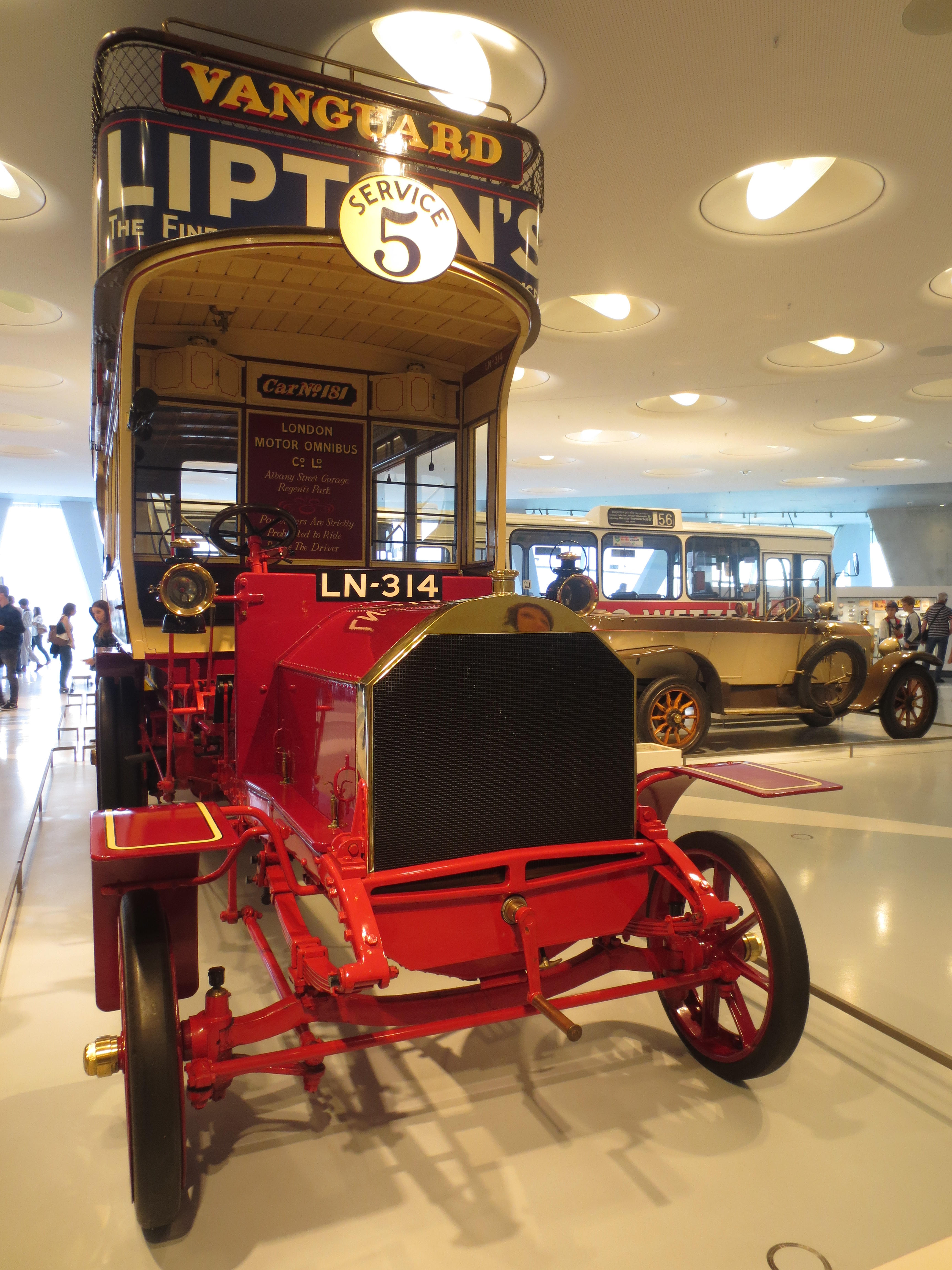 Daimler-Benz double-decker bus with Daimler chassis and Milnes (U.K.) framing. These buses were used from 1904 for city traffic, especially in London. Year: 1907.